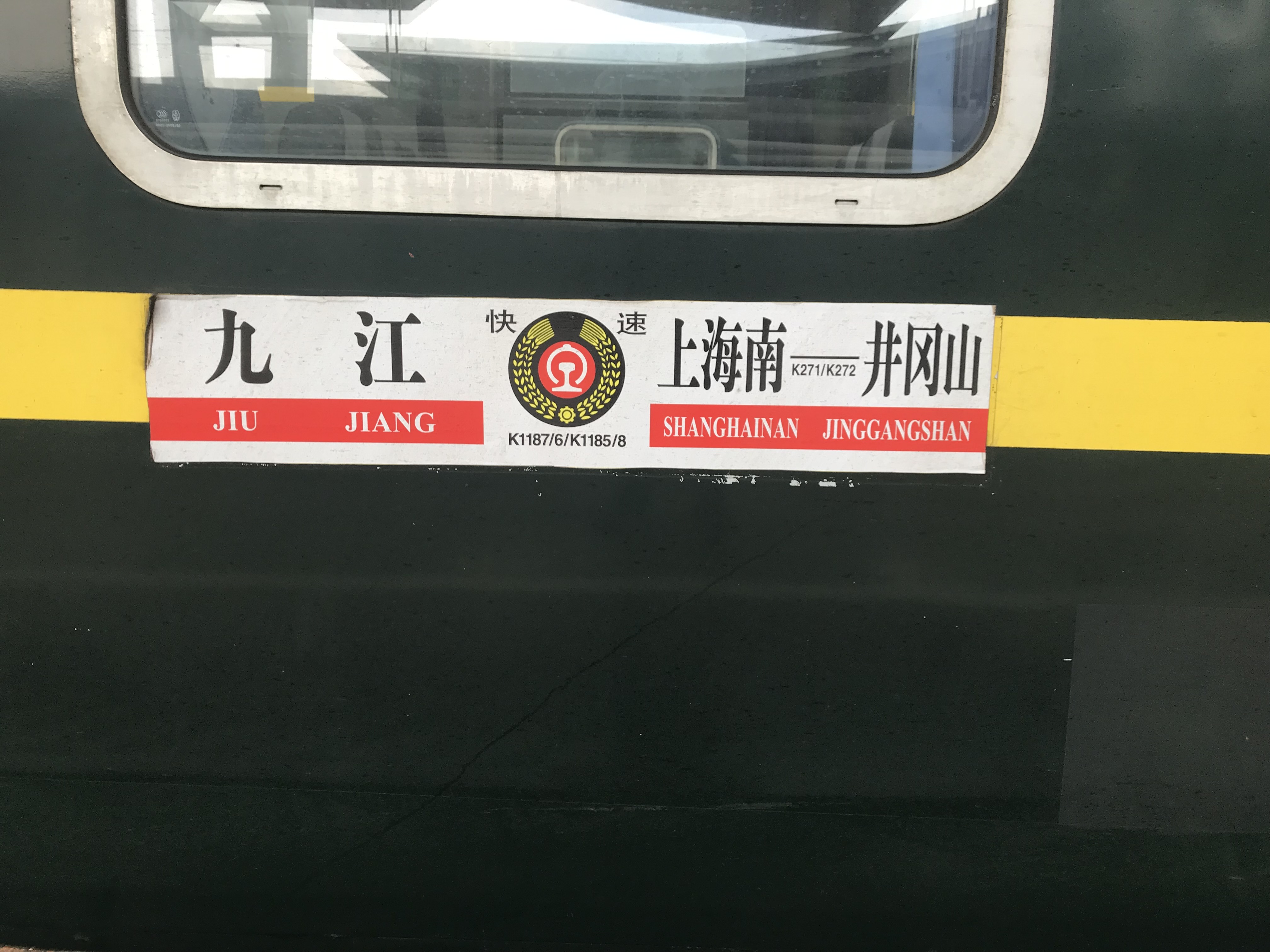 Jiujiang to Shanghainan to Jinggangshan